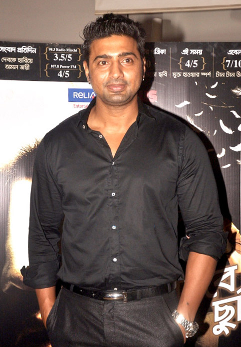 Dev at a special screening of Buno Haansh in Mumbai.